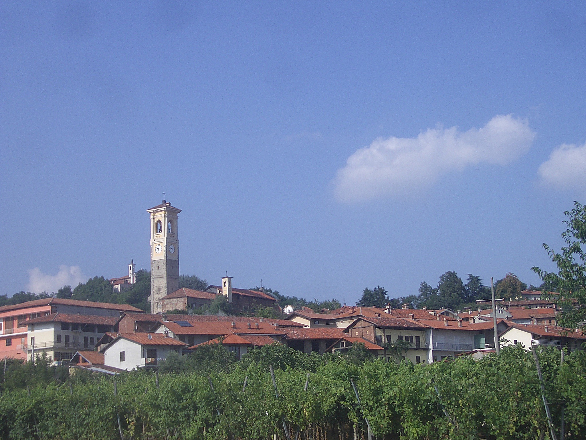 Cuceglio, landscape